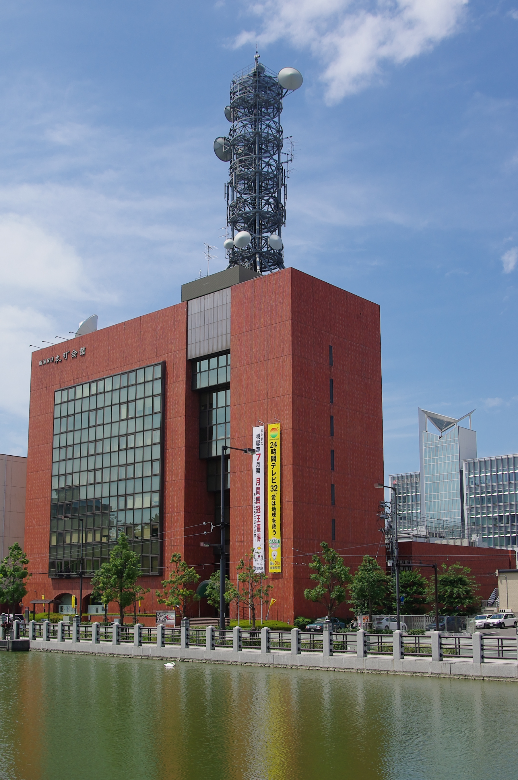 Photograph of RNB Honmachi Building, headquarters and broadcasting center of Nankai Broadcasting Company (RNB), in Matsuyama, Ehime Prefecture, Japan.